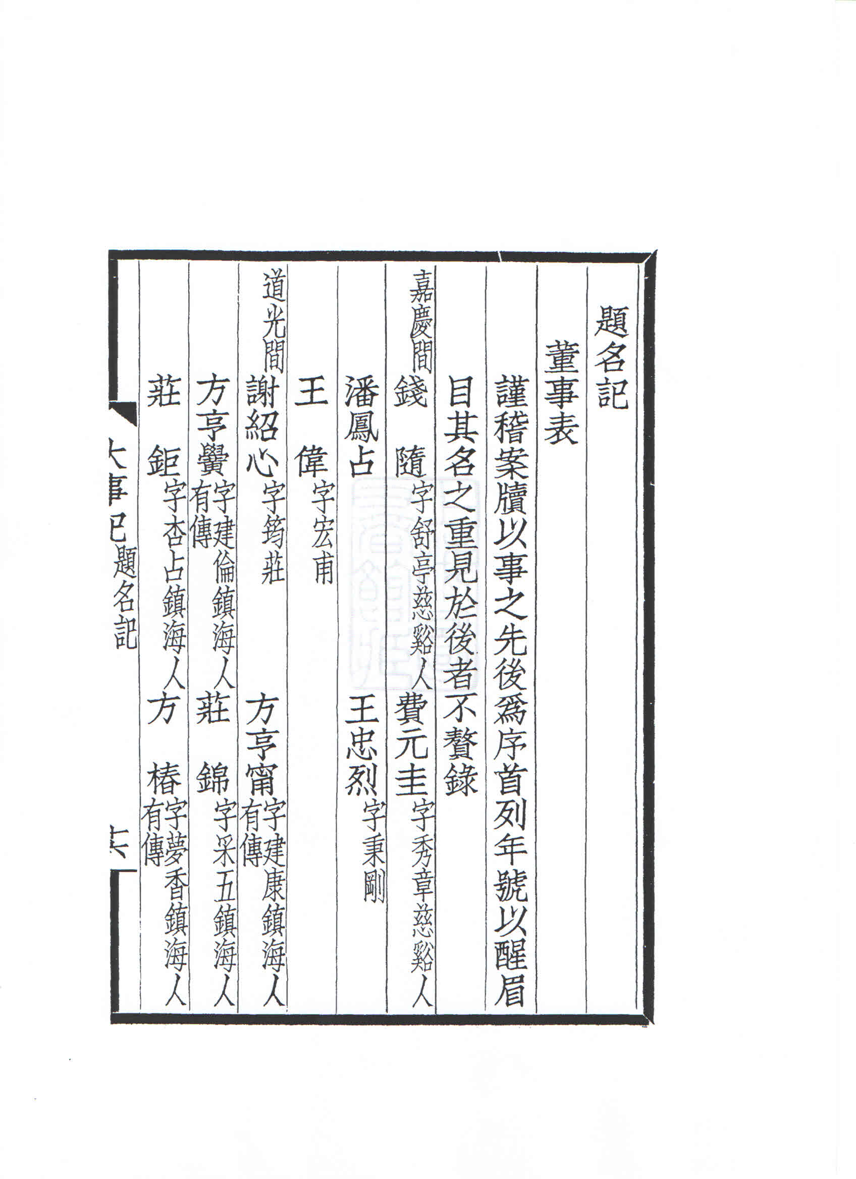 List of Si-Ming Guild Directors (page 1)